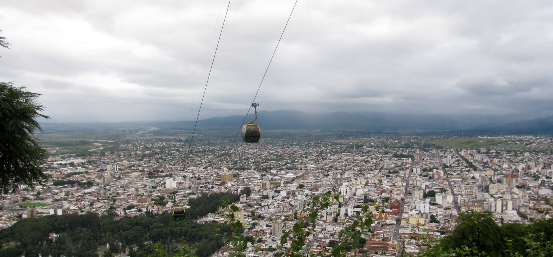 Vista panoramica de la ciudad de Salta desde la cima del cerro San Bernardo